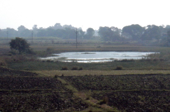 Devadatta place in Jetavana Mahavihara of Anathapintikasette Location: Uttar Pradesh, India